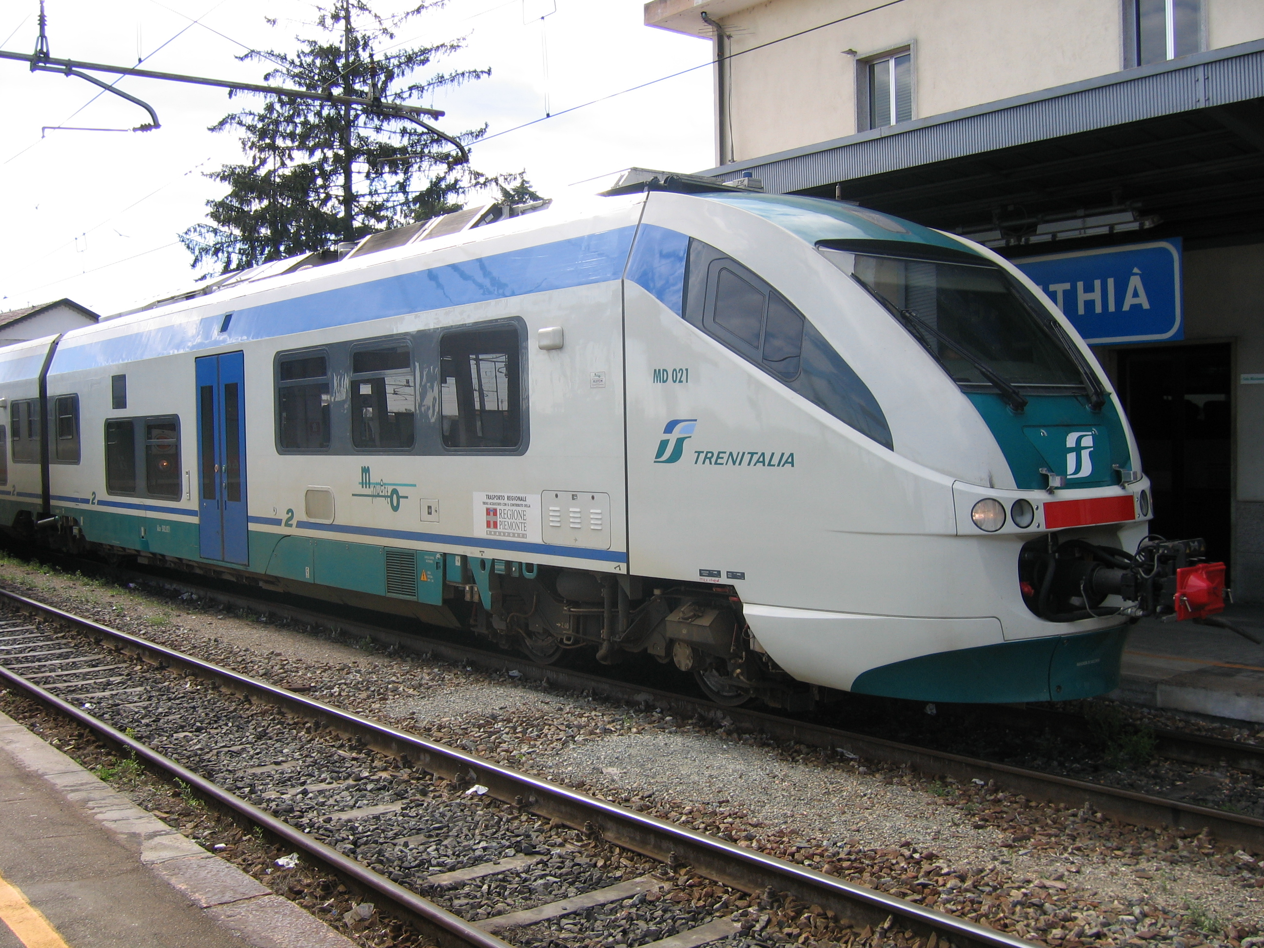 ALn501-502 diesel n.21, built by Alstom, parto of Coradia/LiNT family. Design by Giugiaro. Santhià (TO), Italy